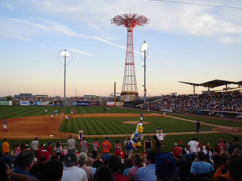 KeySpan Park minor league baseball stadium, Coney Island, New York. The famous Parachute Jump is in the background.